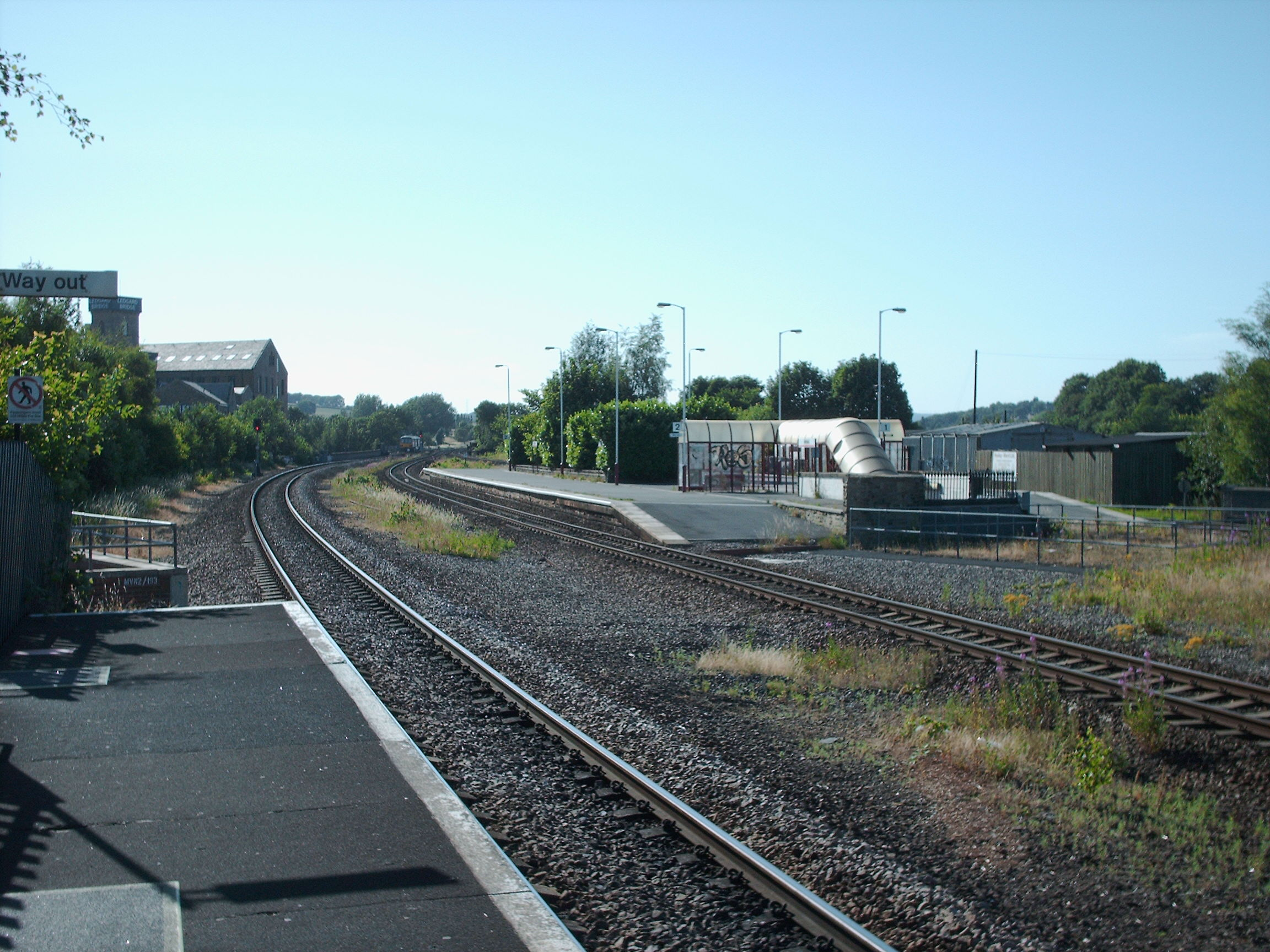 Mirfield railway station, West Yorkshire, England. The view from platform 3.